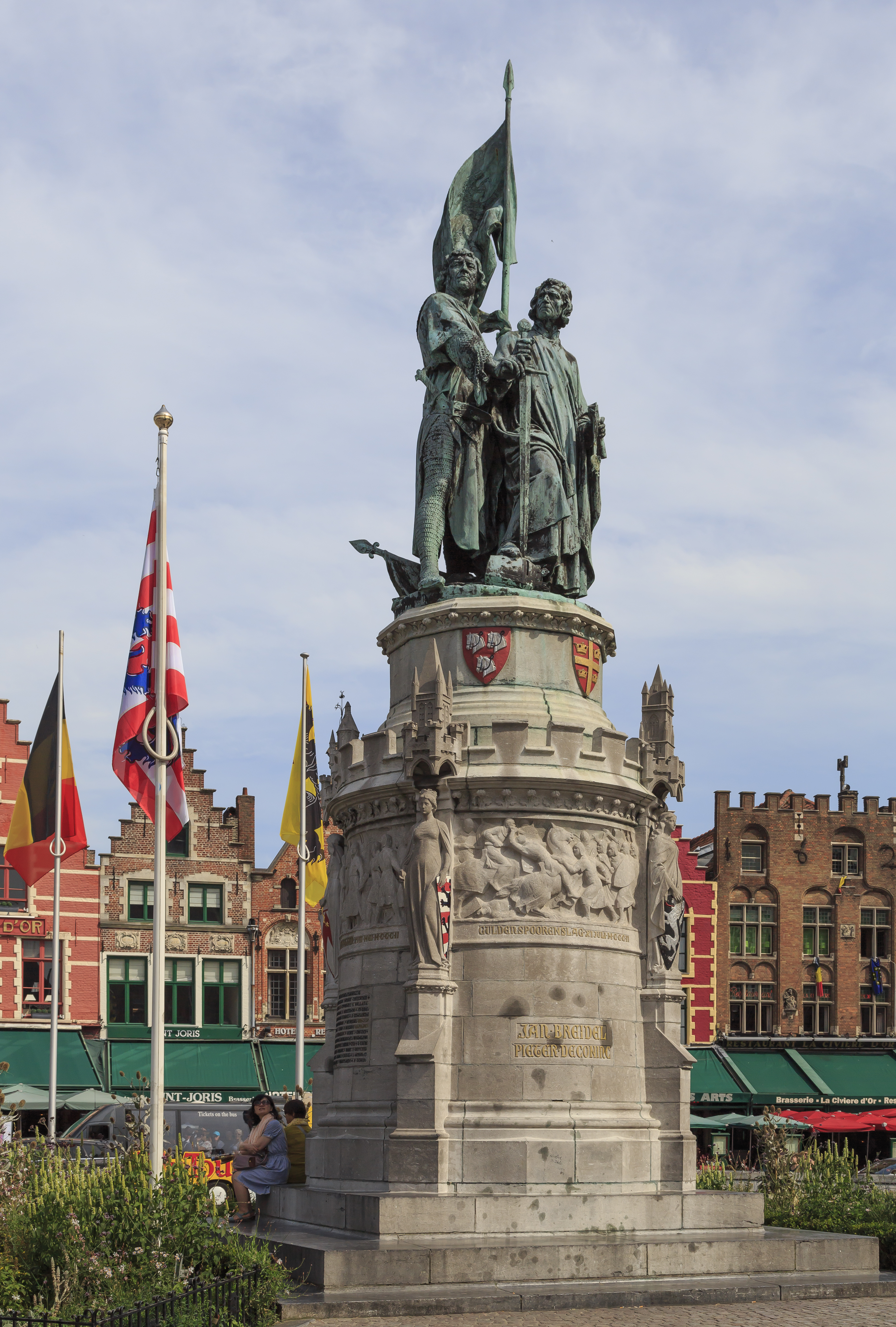 Bruges, Belgium: Statue of Jan Breydel and Pieter de Coninck on the Grote Markt